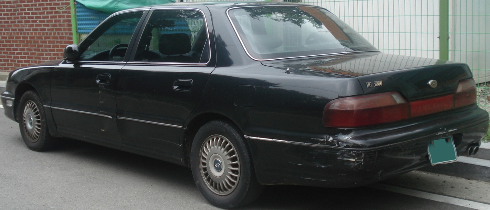 Hyundai New Grandeur